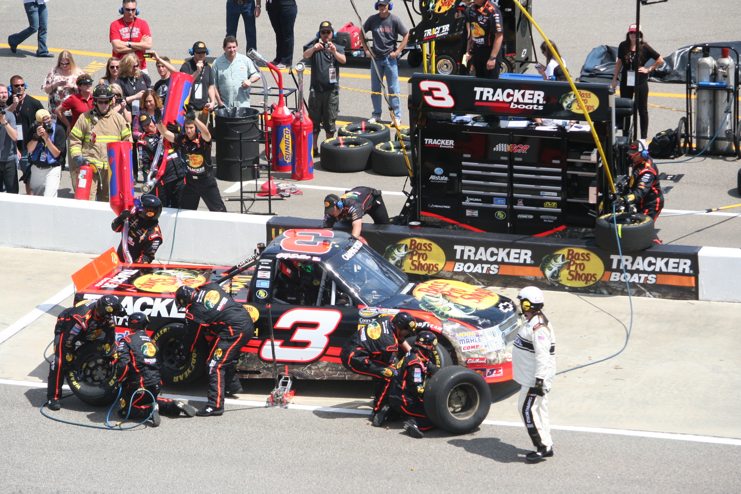 Ty Dillon's Richard Childress Racing pit crew services the No. 3 Chevrolet Silverado during the Good Sam Roadside Assistiance Carolina 200 at Rockingham Speedway, April 15, 2012.